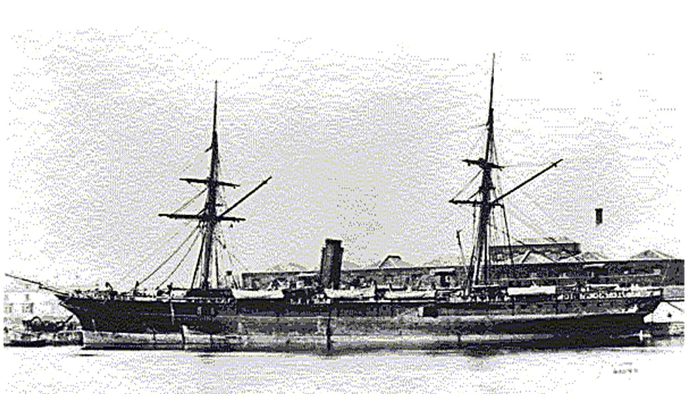 Italian Steam Ship